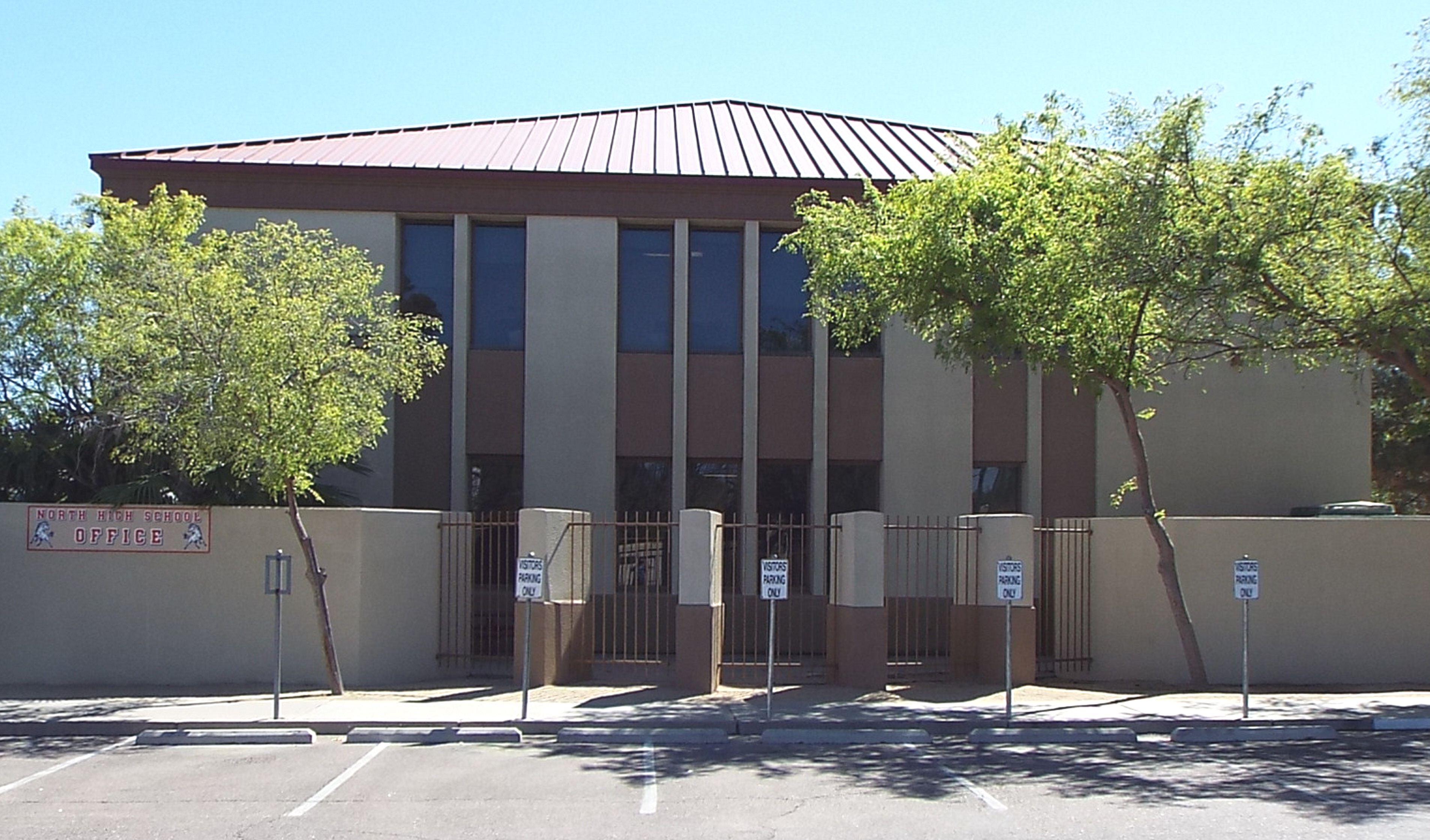 North Phoenix High School, now North High School (1954), was built in 1939 and is located on 1101 East Thomas Road.This is the original building which was planned and financed through the New Deal Works Projects Administration and Public Administration funds.